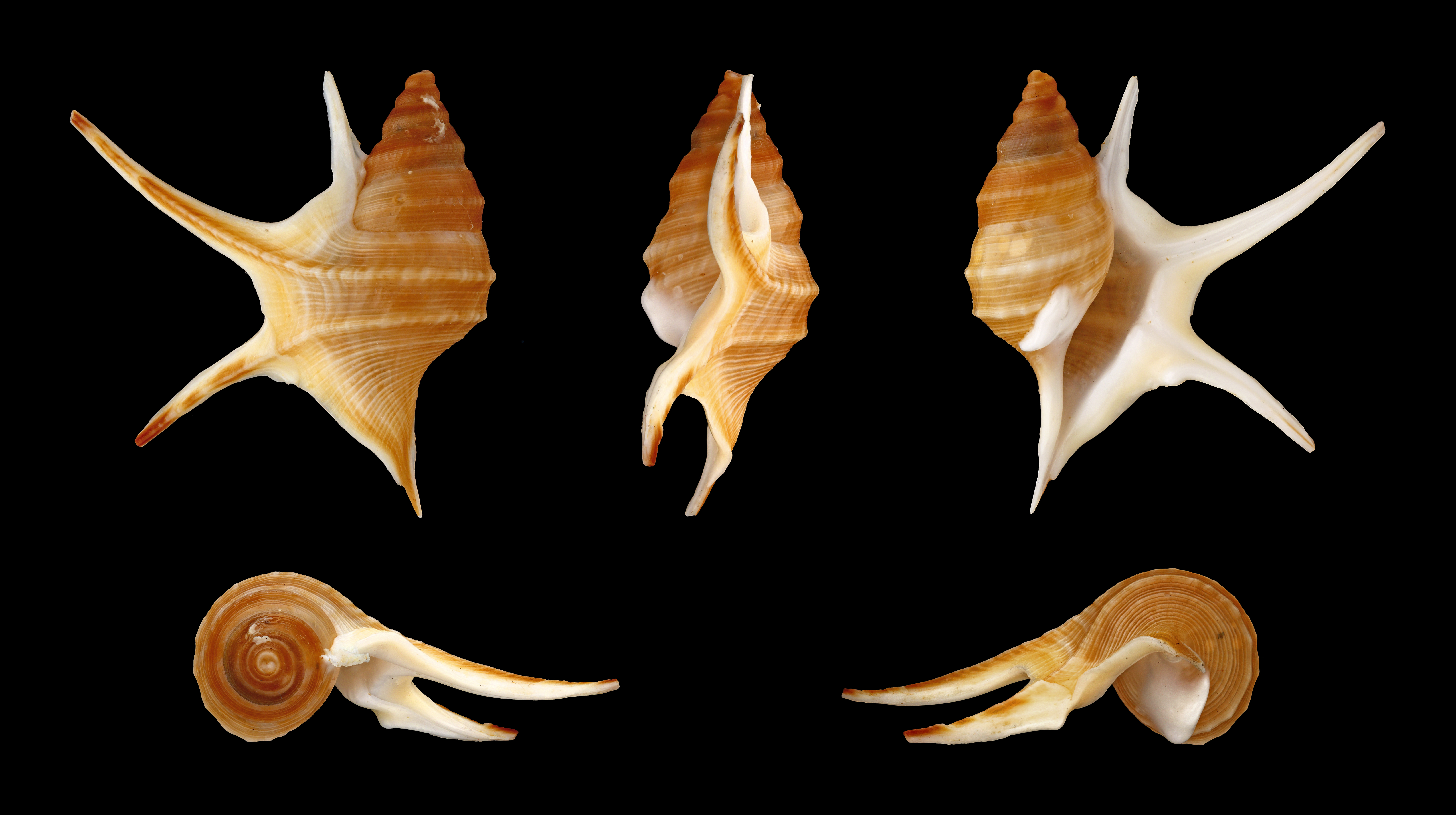 African Pelican's Foot; Length 3.3 cm; Originating from Quicombo, Angola; Shell of own collection, therefore not geocoded. Dorsal, lateral (right side), ventral, back, and front view.